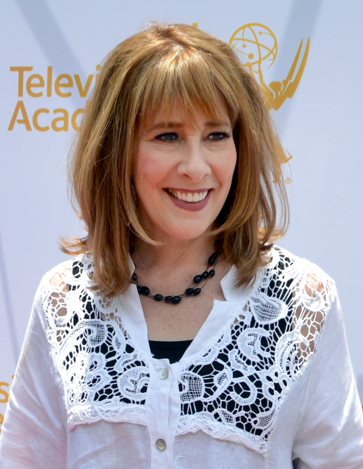 The Television Academy Hosts An Afternoon of Tea, Scones and Chatting with Downton Abbey Cast and Creators at Paramount Studios.